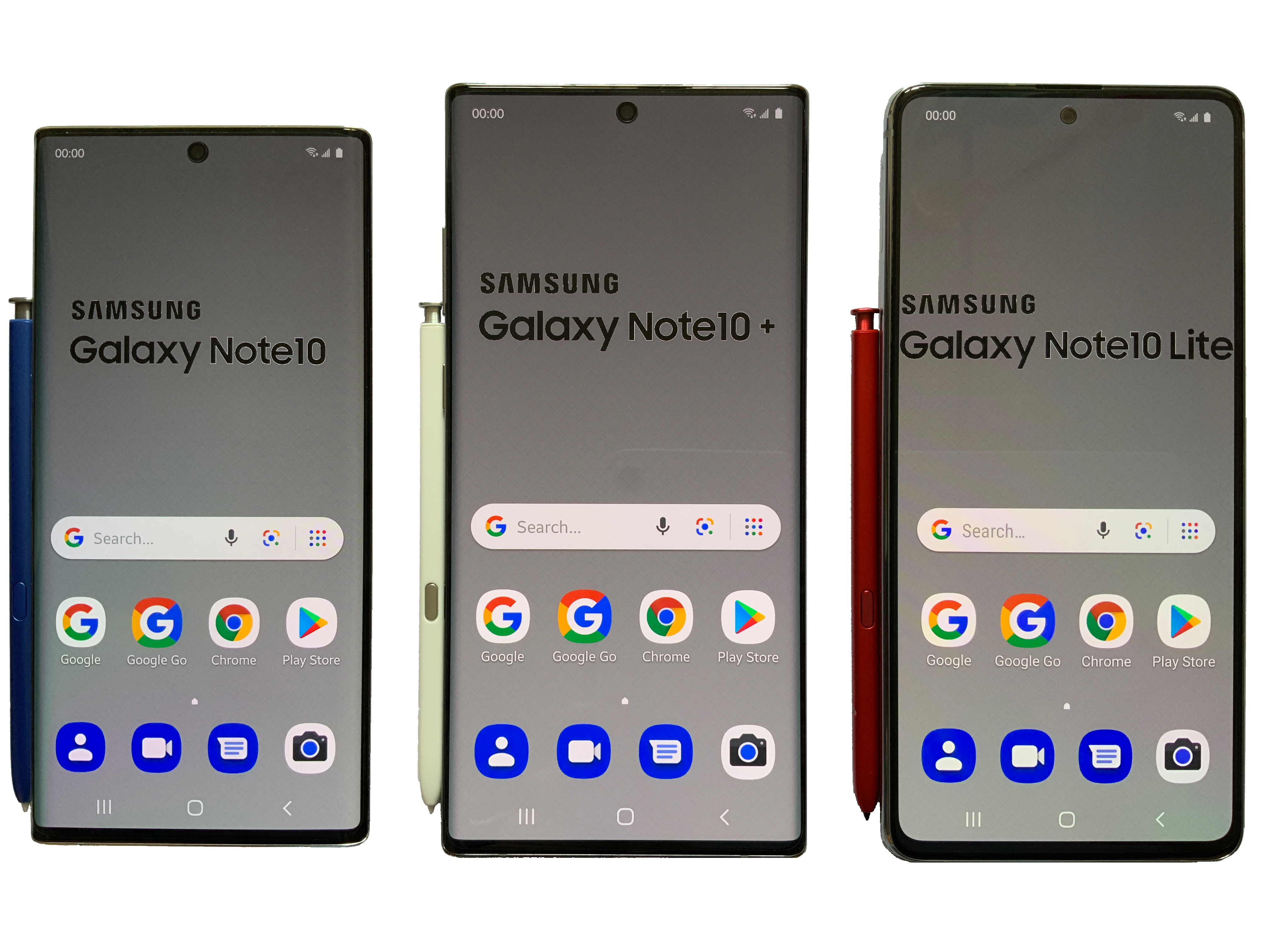 SAMSUNG Galaxy Note10 SAMSUNG Galaxy Note10+ SAMSUNG Galaxy Note10 Lite